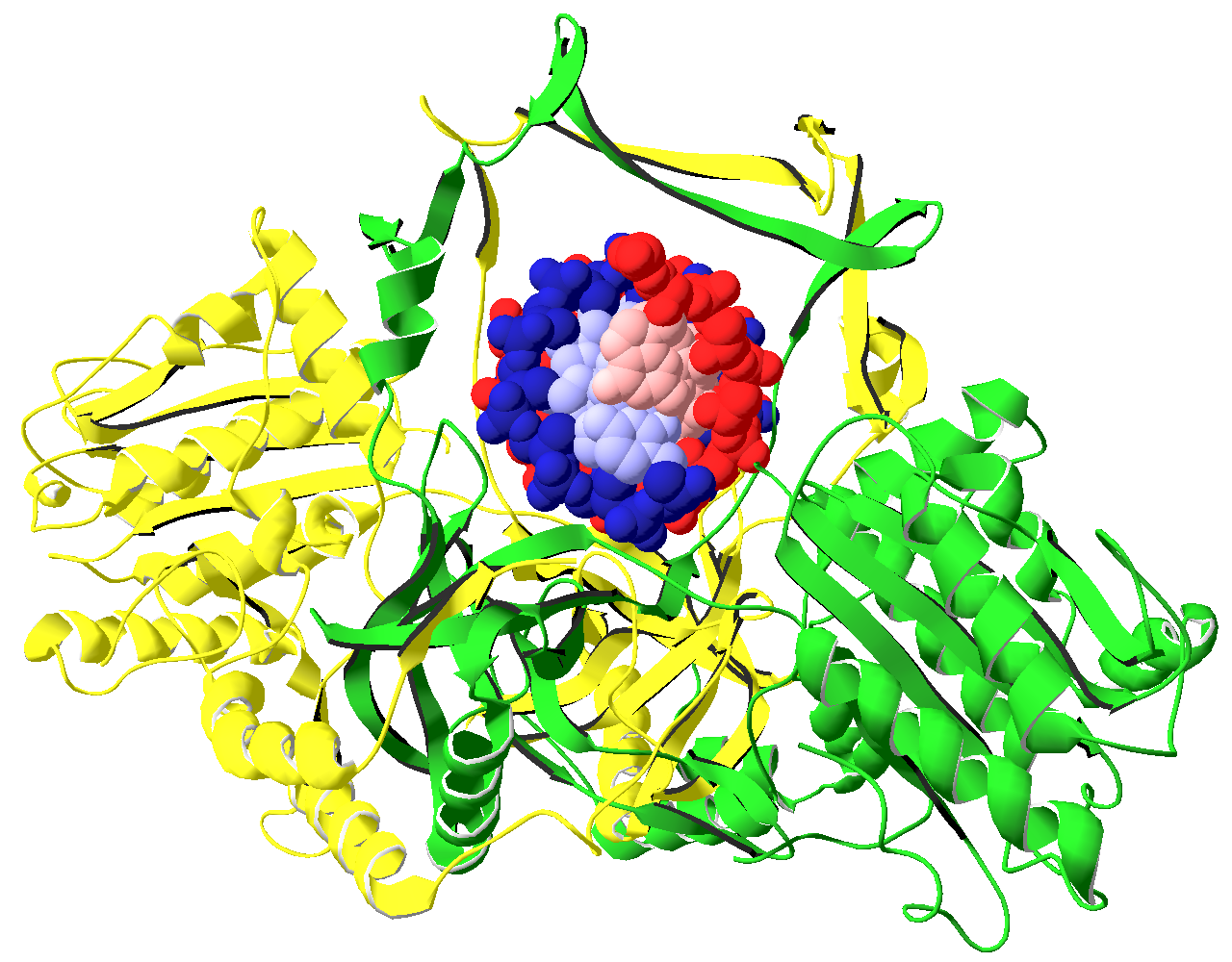 Human Ku heterodimer protein attached to DNA. Ku70 is marked green, Ku80 - yellow, and the chains of DNA - the red and blue. Crystallographic data visualization of the PDB file: 1JEY [2] used the Swiss-PDBViewer 4.0.1